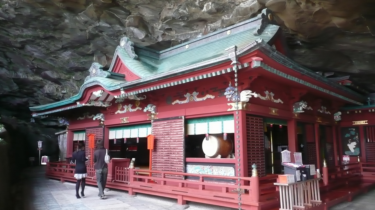 Udo Jingu Honden (Nichinan City, Miyazaki, Japan)